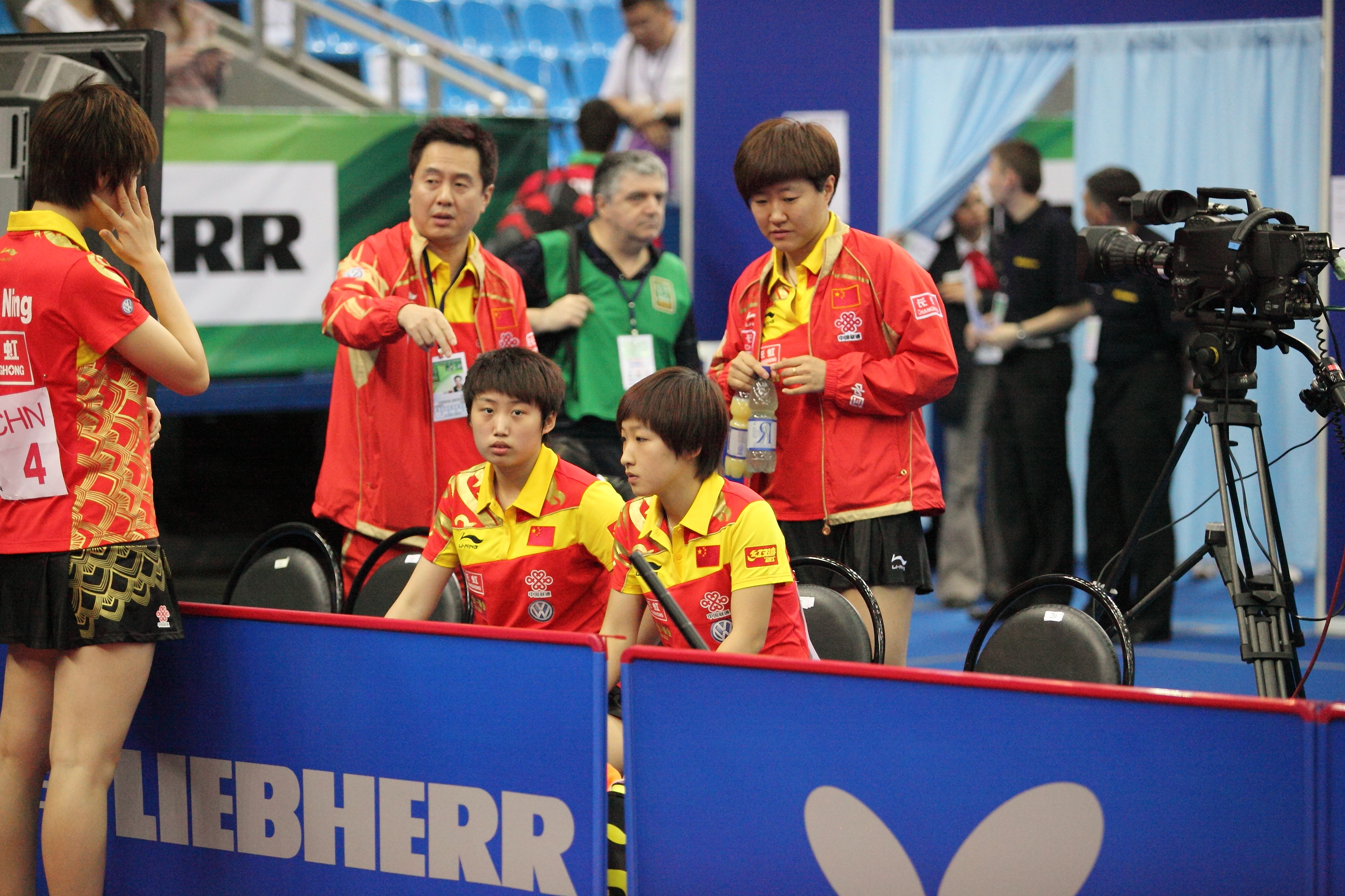 Photo of China national women's team was taken during World Team Championship on Table Tennis in Moscow (May 2010)